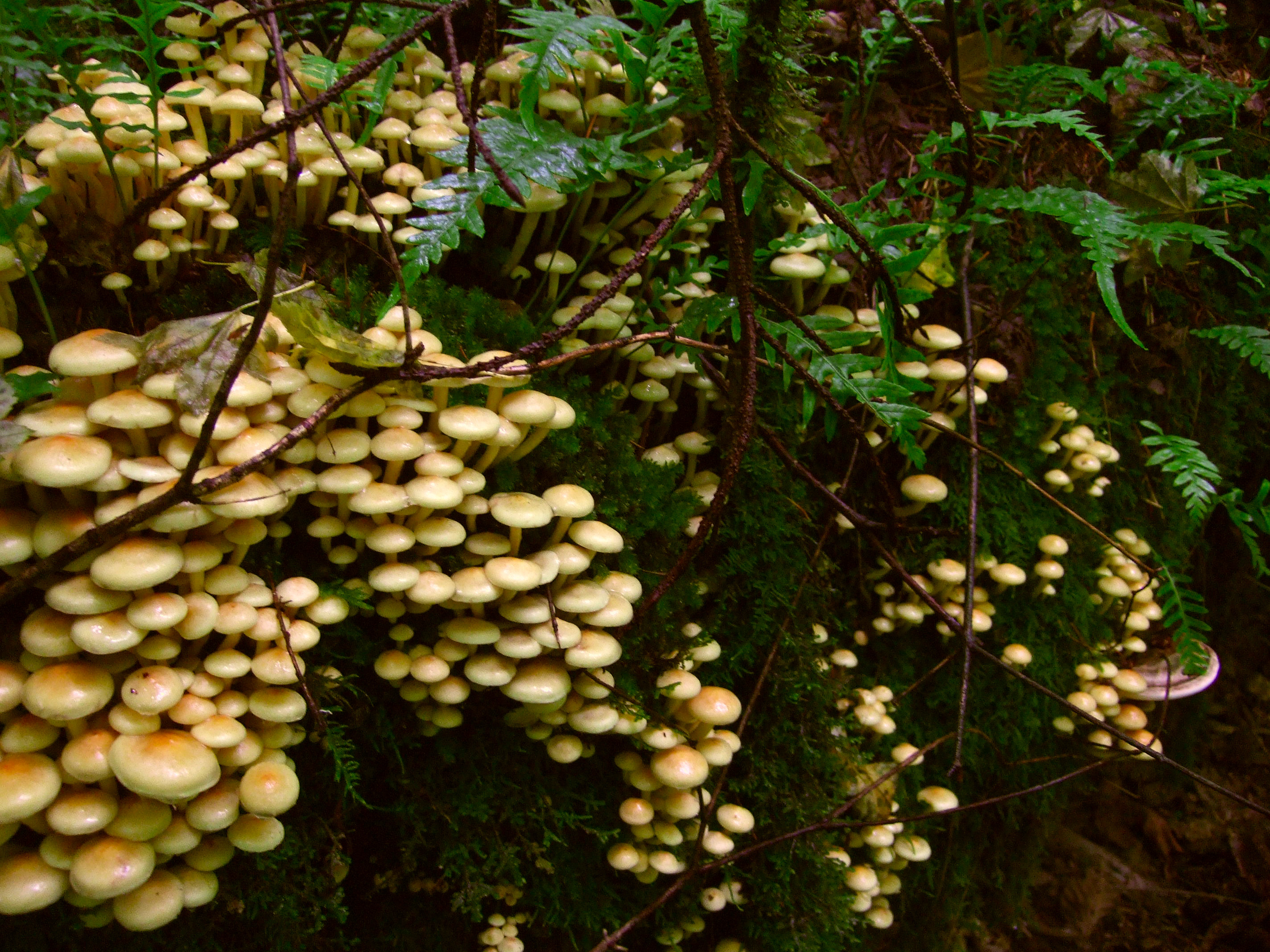 Hypholoma fasciculare, commonly known as the Sulphur Tuft, Sulfur Tuft or Clustered Woodlover